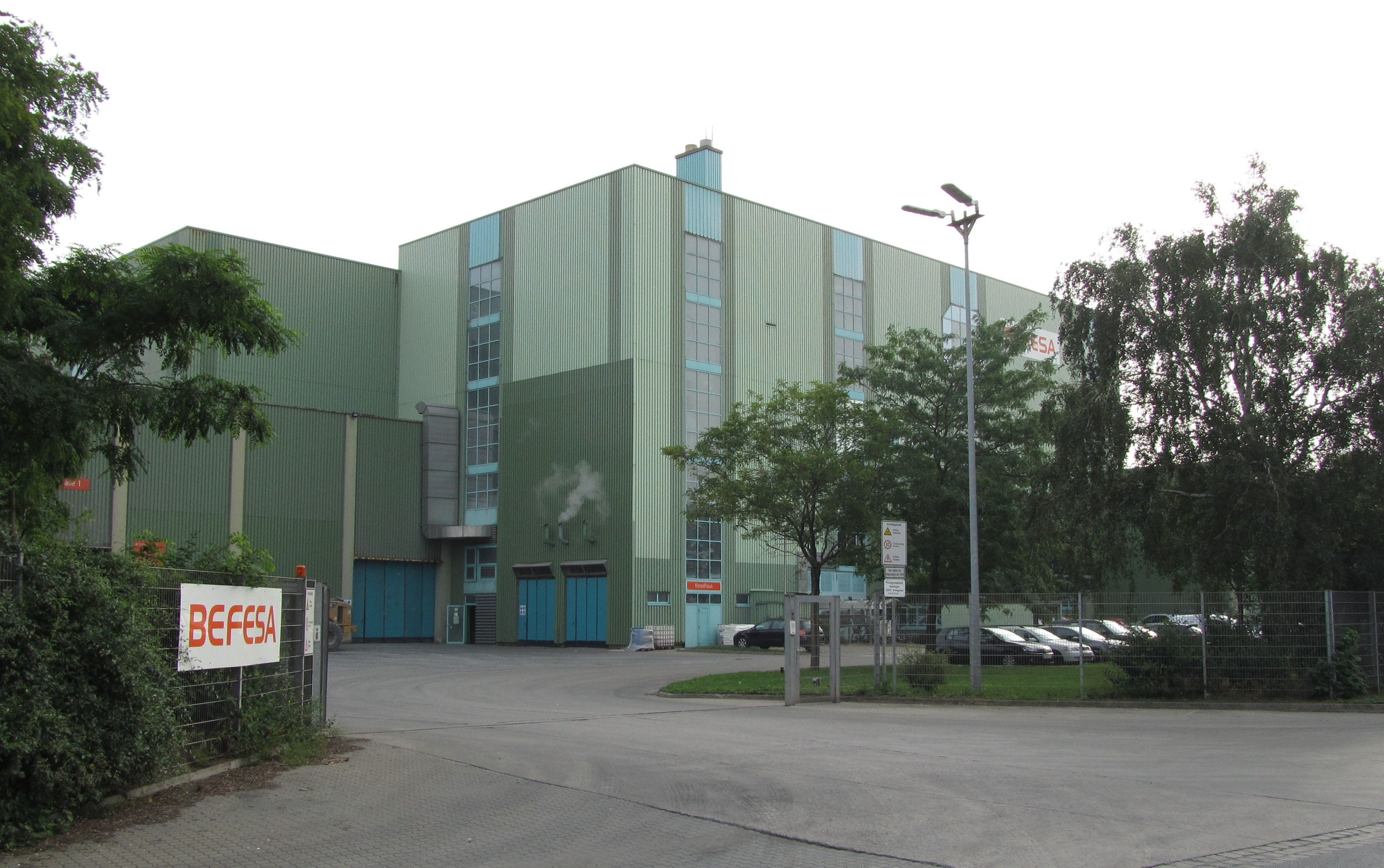 Befesa factory, Hanover, Germany.